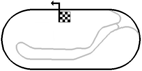 Simple line diagram of the Milwaukee Mile race track layout